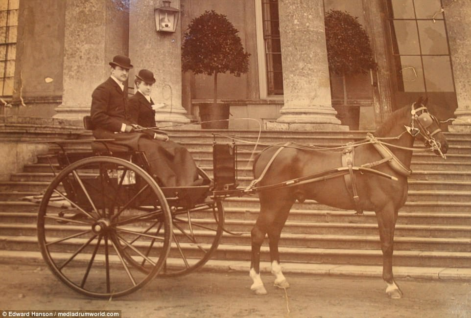 Hélène, Princess of Orléans, with Emanuele Filiberto, Duke of Aosta at Stowe House in Buckinghamshire at the time of their engagement, in 1895